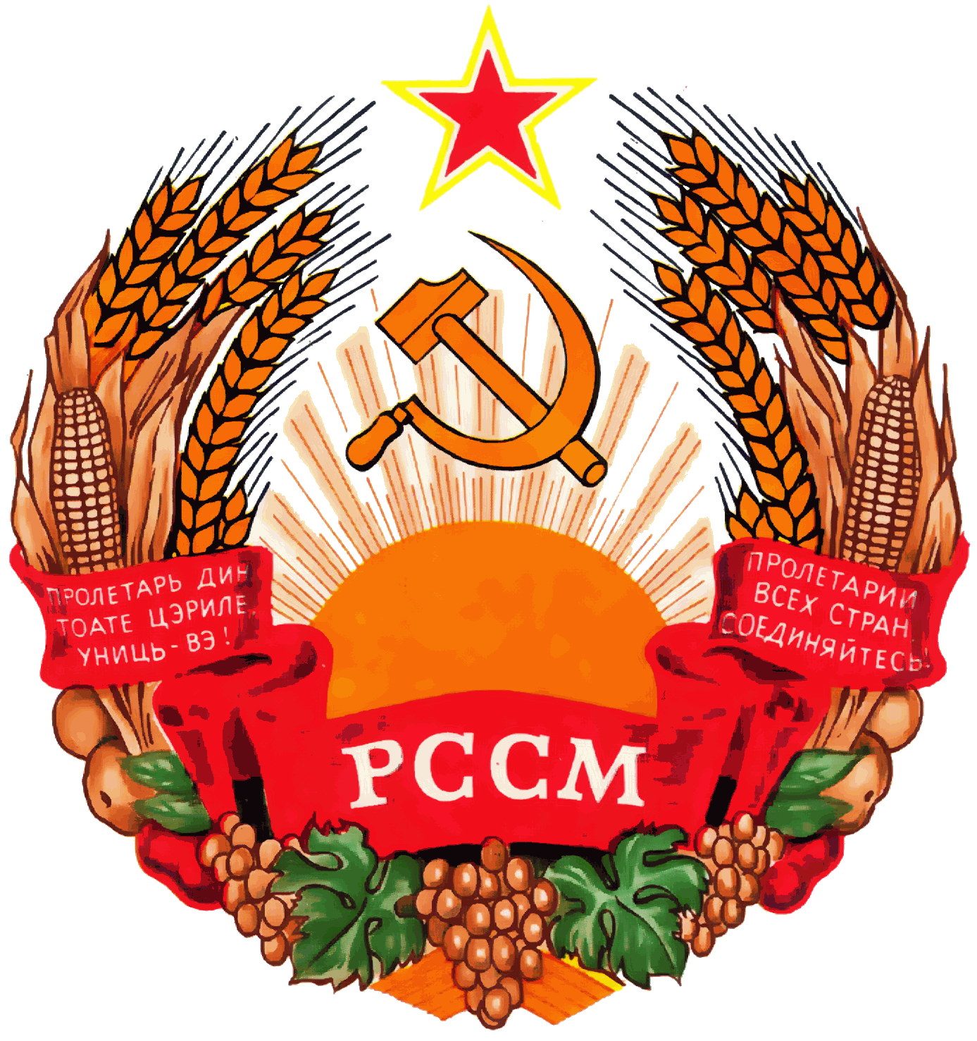 Coat of arms of Moldavian SSR